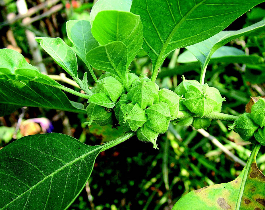 Withania somnifera